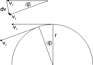 for calculation of kinetic energy in a circular orbit